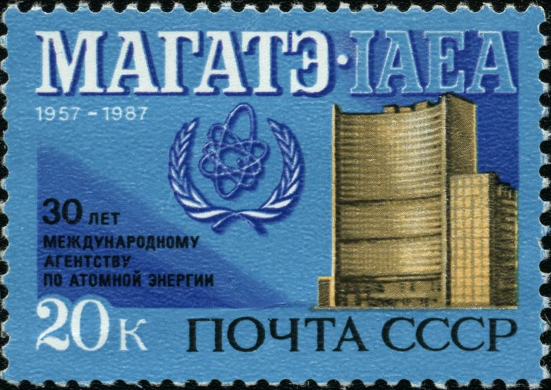 A USSR stamp, 30th Anniversary of International Atomic Energy Agency. Date of issue: 29th July 1987. Designer: G. Komlevv Michel catalogue number: 5741. Scott 5584 20 K. multicoloured. Emblem and Vienna headquarters of International Atomic Energy Agency.